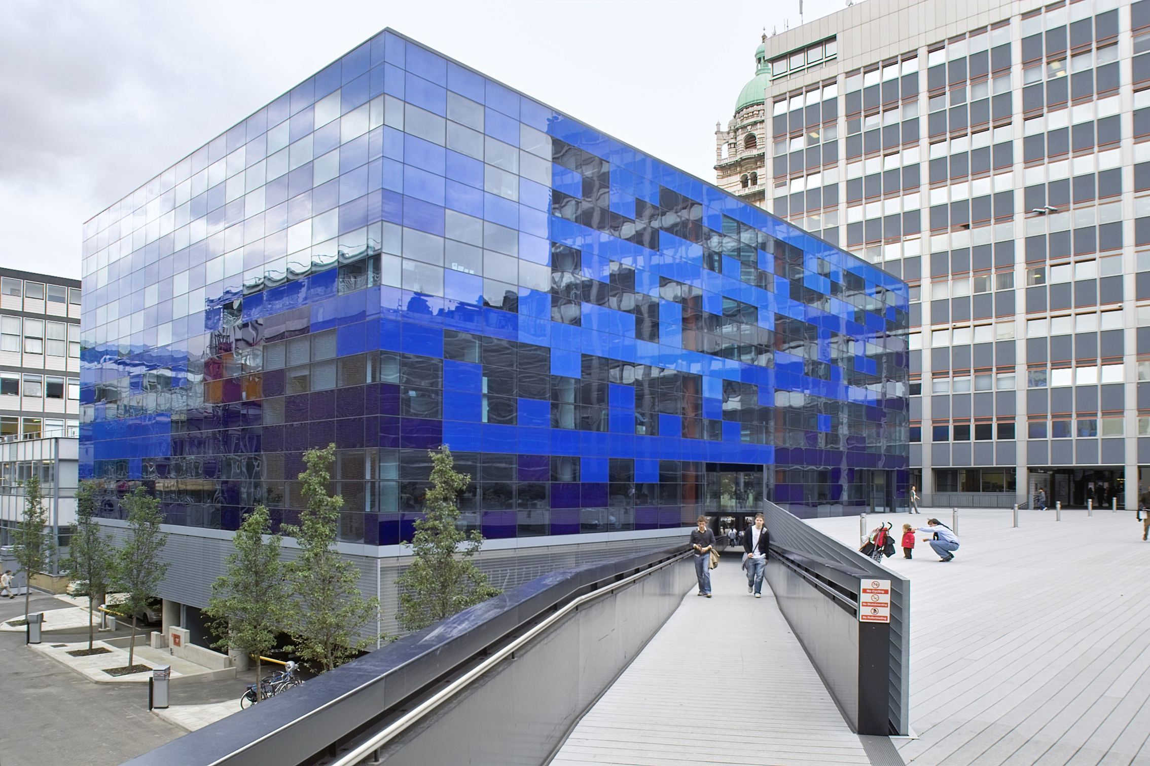 The Faculty Building, designed by Norman Foster, at Imperial College London